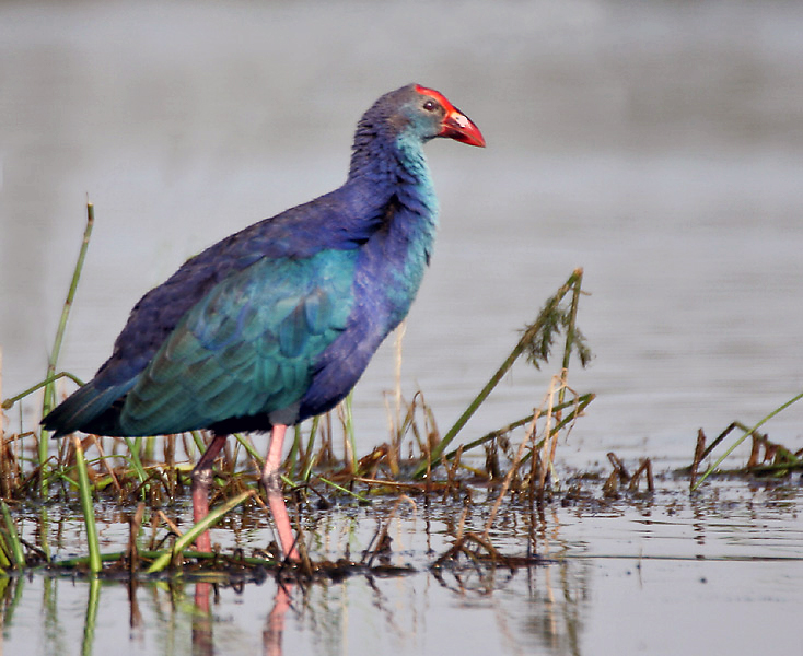 Purple Swamphen (Porphyrio porphyrio) at/ near Hodal in Faridabad District of Haryana, India.